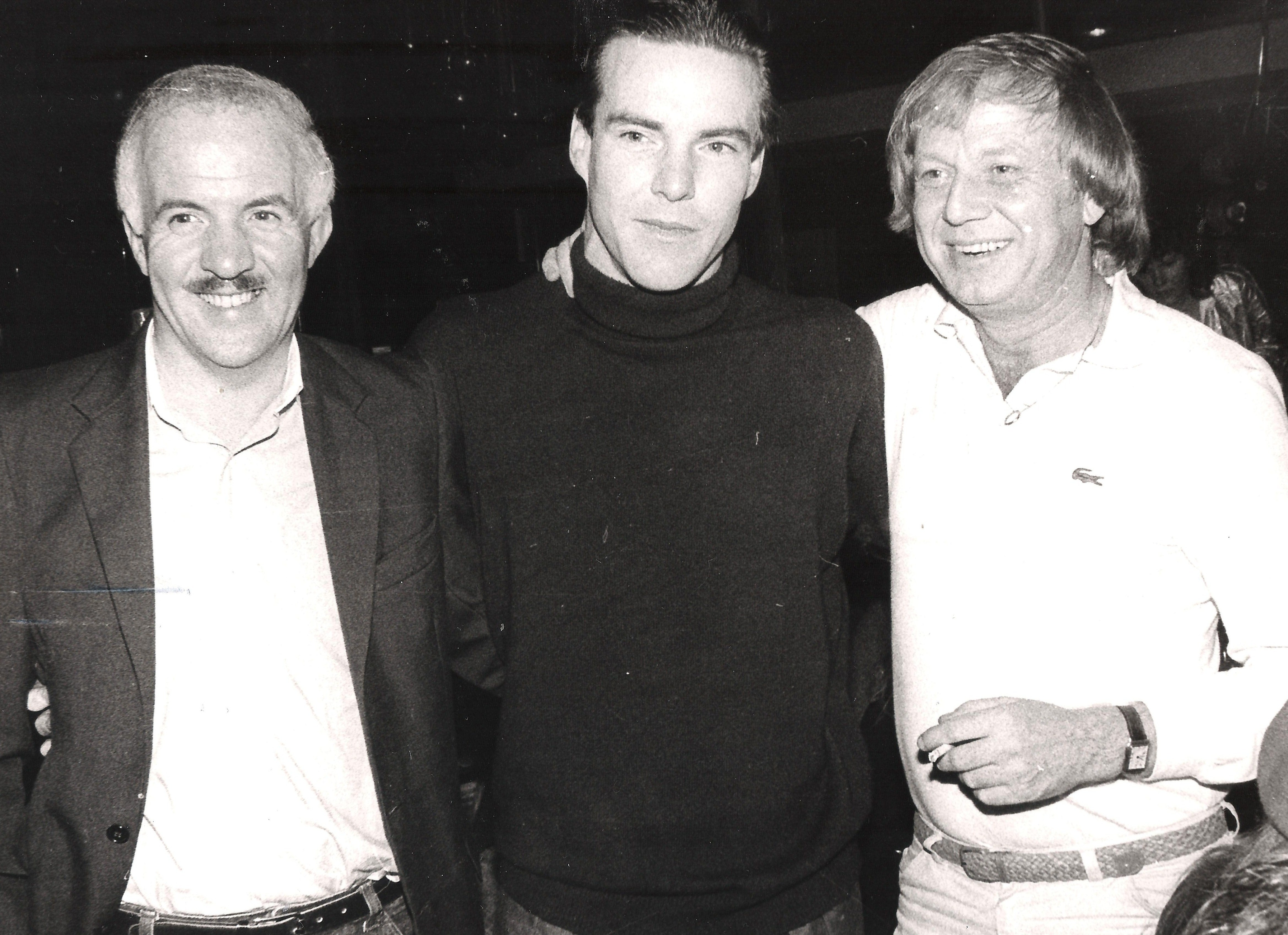 Stanley O'Toole, Dennis Quaid, Wolfgang Petersen whilst working on Enemy Mine in 1984.